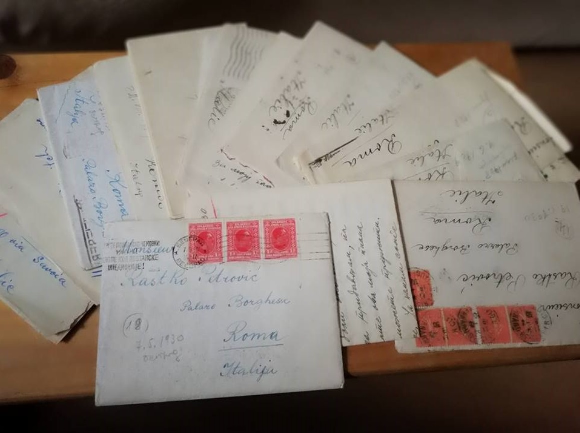 Letters from Sava Šumanović to Rastko Petrović. The entire collection of letters can be found in the Society for Culture, Art and International Cooperation Adligat in Belgrade, Serbia. Српски (ћирилица): Писма Саве Шумановића Растку Петровићу. Целокупан фонд писама налази се у Удружењу за културу, уметност и међународну сарадњу Адлигат у Београду.